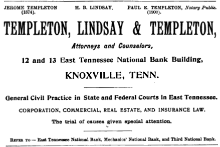 Advertisement for the law firm of Templeton, Lindsay & Templeton (Jerome Templeton, Hugh B. Lindsay, and Paul Templeton, of Knoxville, Tennessee, United States.